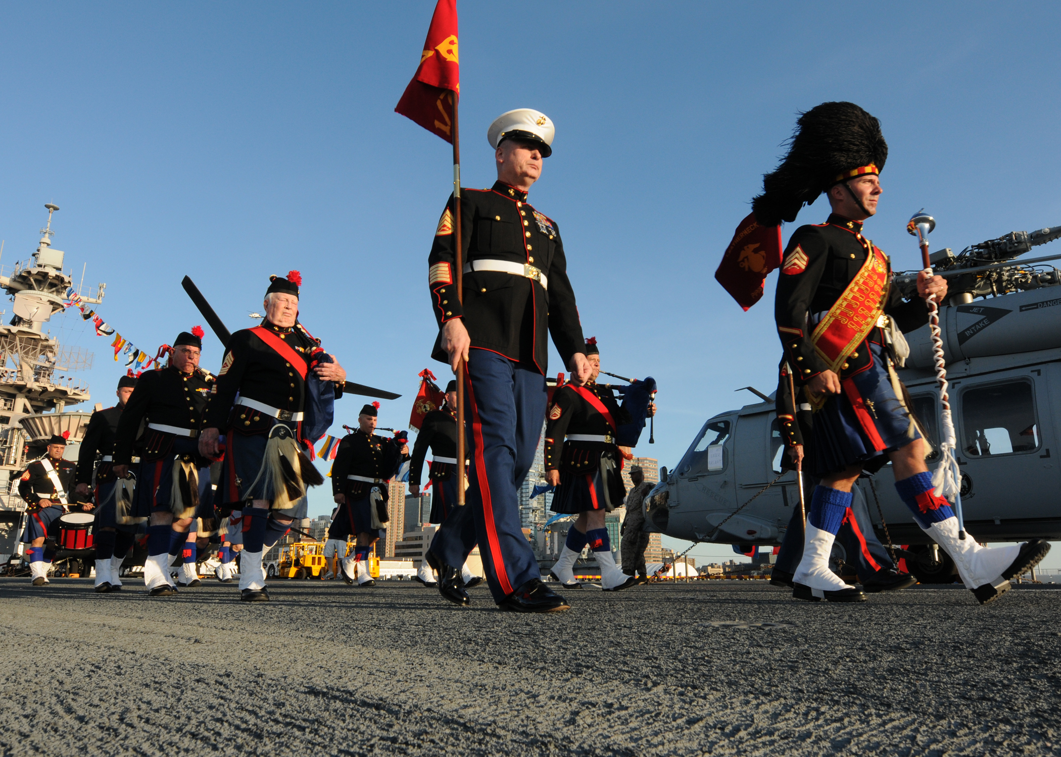 NEW YORK (May 30, 2010) The Leatherneck Pipes and Drums practice before a Sunset Parade on the flight deck of the multi purpose amphibious assault ship USS Iwo Jima (LHD 7). Approximately 3,000 Sailors, Marines and Coast Guardsmen are participating in the 23rd Fleet Week New York, which is taking place through June 2. Fleet Week has been New York City's celebration of the sea services since 1984. (U.S. Navy photo by Mass Communication Specialist 3rd Class Ash Severe/Released)